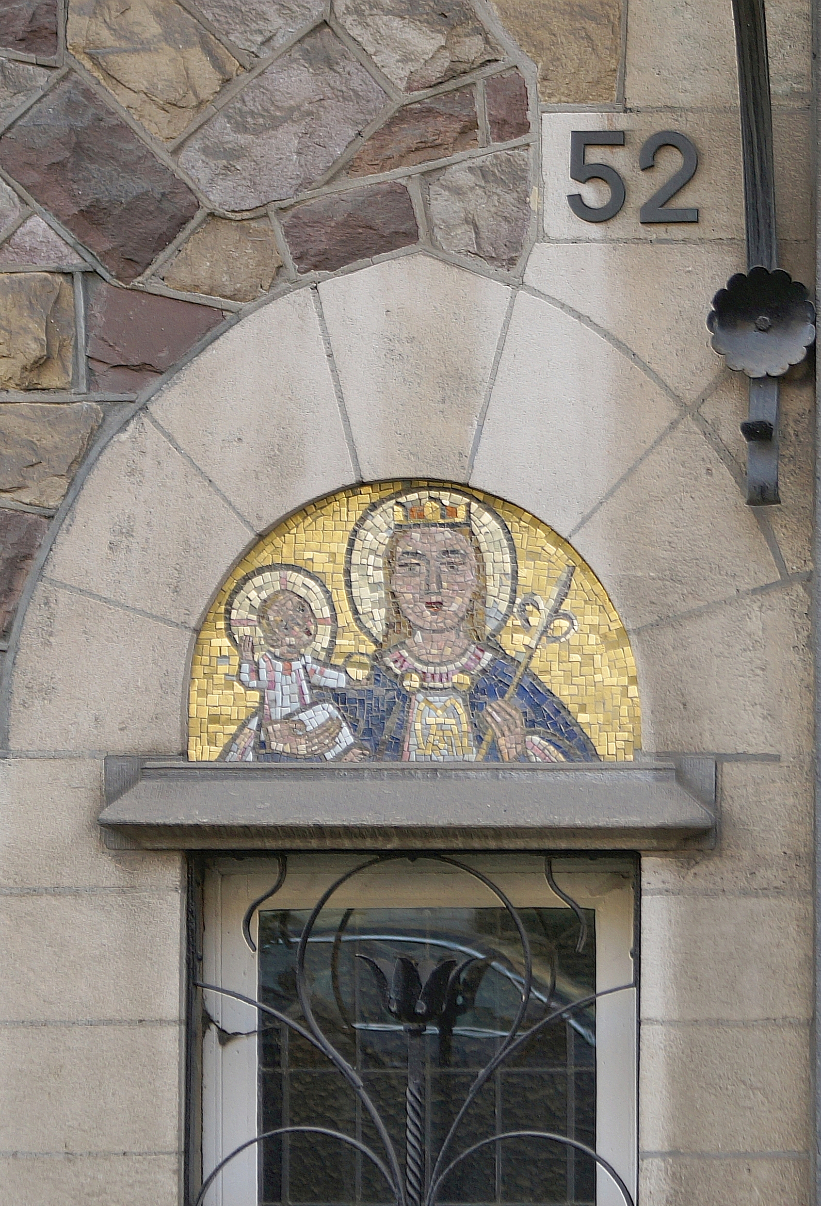 Cogels Osylei 52 - Antwerp - De Tulp - Detail of the facade - The artwork of architect Jules Hofman.